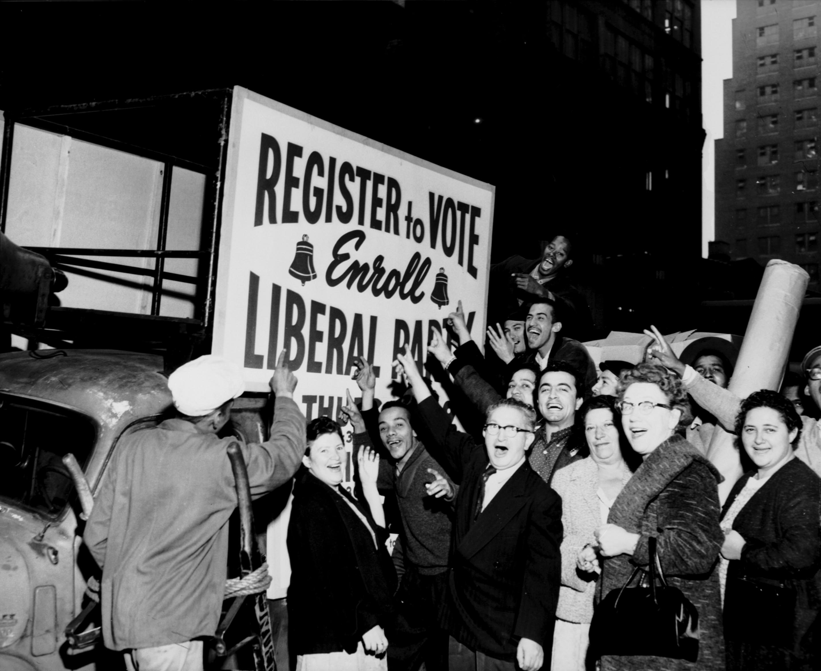 Title: A cheering group of people point to a campaign banner that reads, "Register to Vote, Enroll Liberal Party." Date: 1960s Estimated Photographer: Unknown Photo ID: 5780PB18F6K Collection: International Ladies Garment Workers Union Photographs (1885-1985) Repository: The Kheel Center for Labor-Management Documentation and Archives in the ILR School at Cornell University is the Catherwood Library unit that collects, preserves, and makes accessible special collections documenting the history of the workplace and labor relations. Notes: No additional information available. Copyright: The copyright status of this image is unknown. It may also be subject to third party rights of privacy or publicity. Images are being made available for purposes of private study, scholarship, and research. The Kheel Center would like to learn more about this image and hear from any copyright owners who are not properly identified so that we may make the necessary corrections. Tags: Kheel Center for Labor-Management Documentation and Archives,Cornell University Library,Placards, Voting